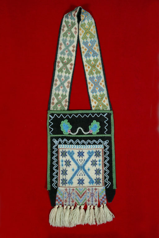 A Bandolier bag in the permanent collection of The Children’s Museum of Indianapolis